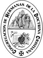 Emblem of the congregation of Sisters of Christian Doctrine (Hermanas de la Doctrina Cristiana), founded in Molins de Rei, Catalonia, Spain, 1880